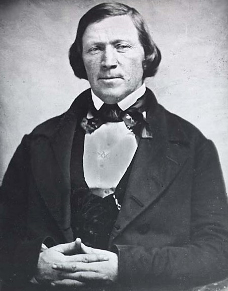 Photograph of Mormon leader Brigham Young (1 June 1801 – 29 August 1877)